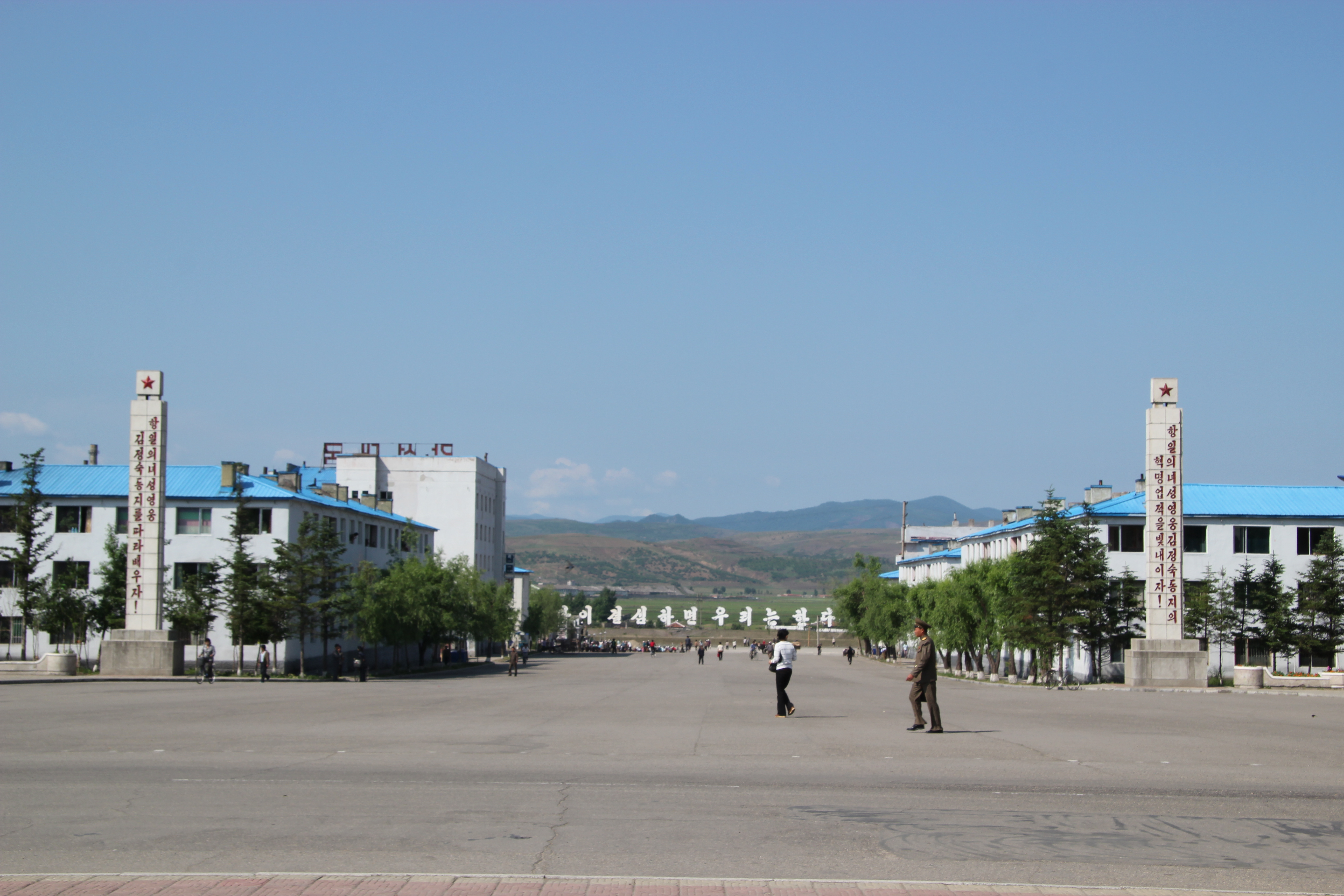 City Center of Hoeryong North Korea